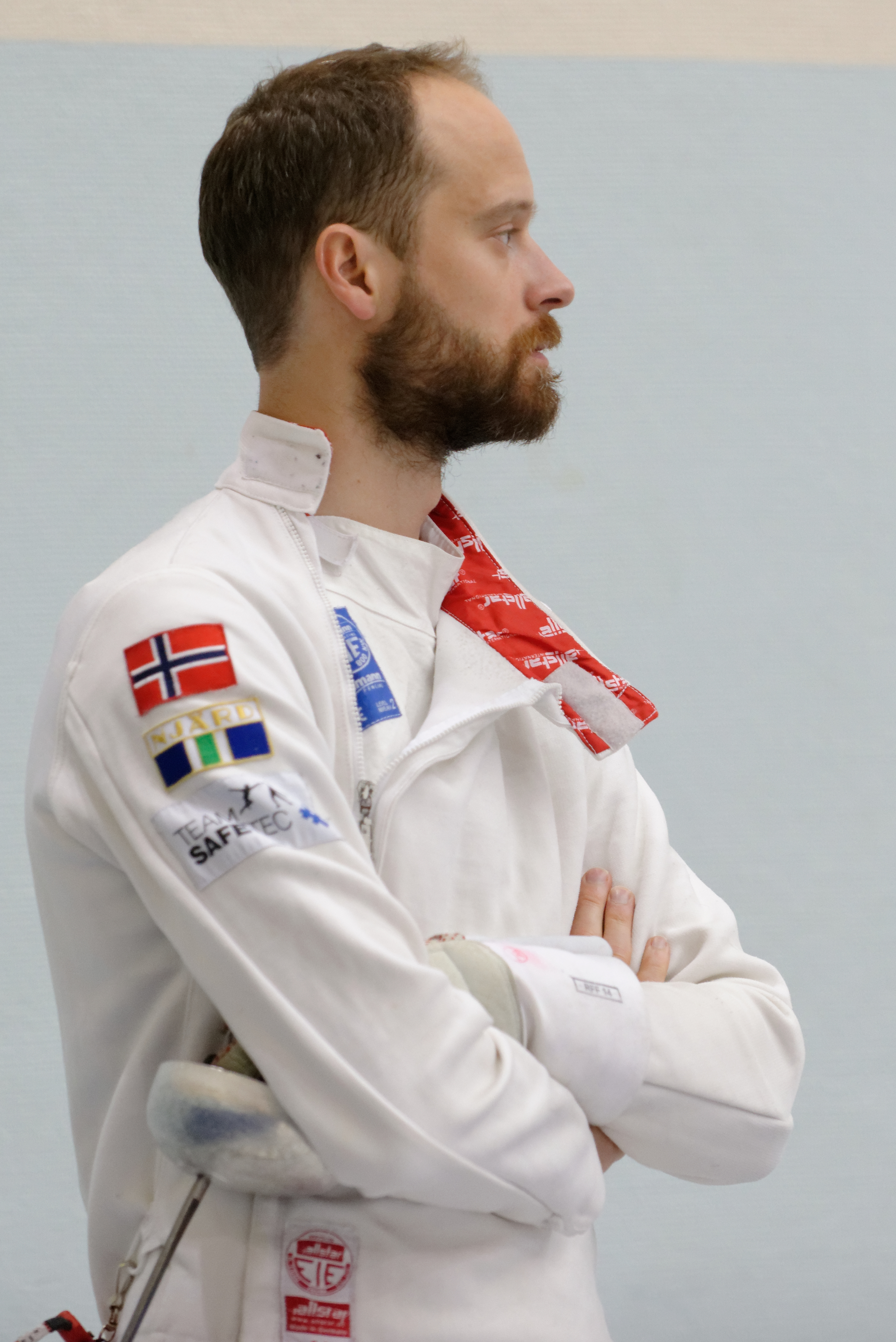 Norway's Sturla Torkildsen during his preliminary T256 match against Arkosi Bertalan of Romania at the 2014 Challenge RFF-Trophée Monal, a men's épée World Cup event, on 2 May 2014.